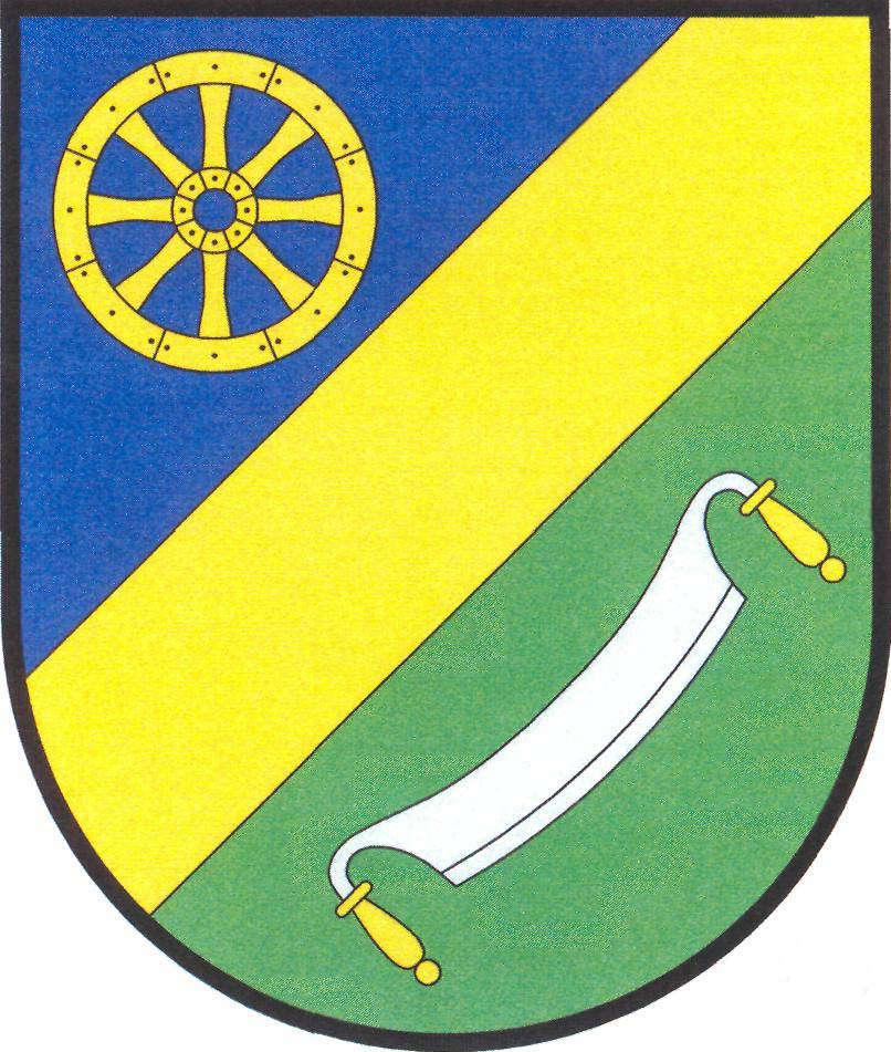 Coat of amrs of Struhařov , District Prague East, Czech Republic